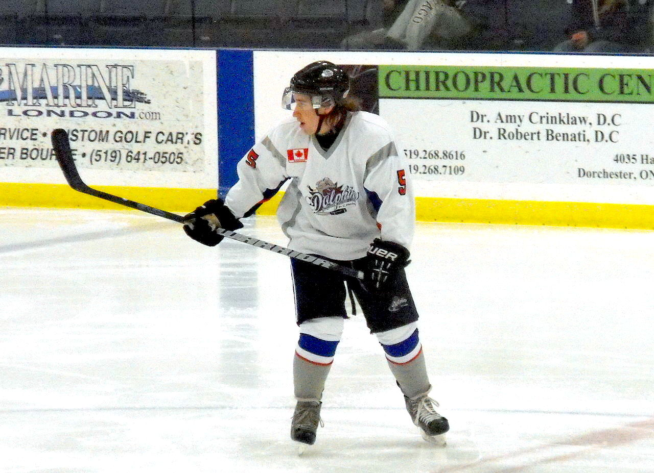 These images of SOJHL action during the 2013-14 season are taken by Devan Mighton.